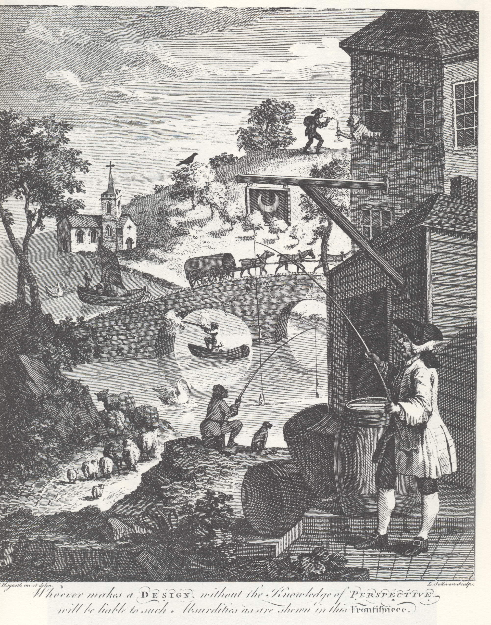 William Hogarth - "The importance of knowing perspective" (Absurd perspectives), Engraving on paper